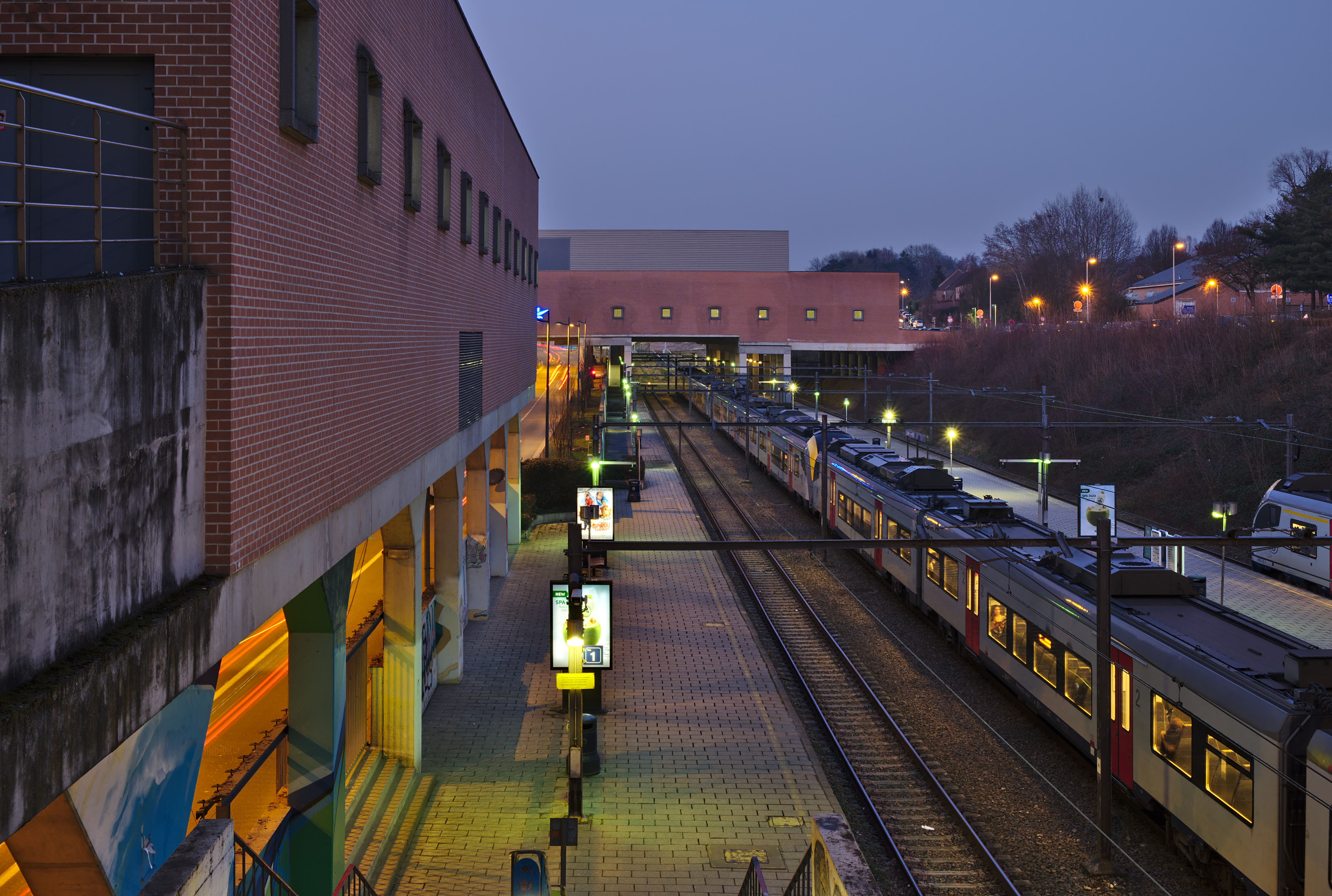 Louvain-la-Neuve train station track 1 during civil twilight (Belgium)